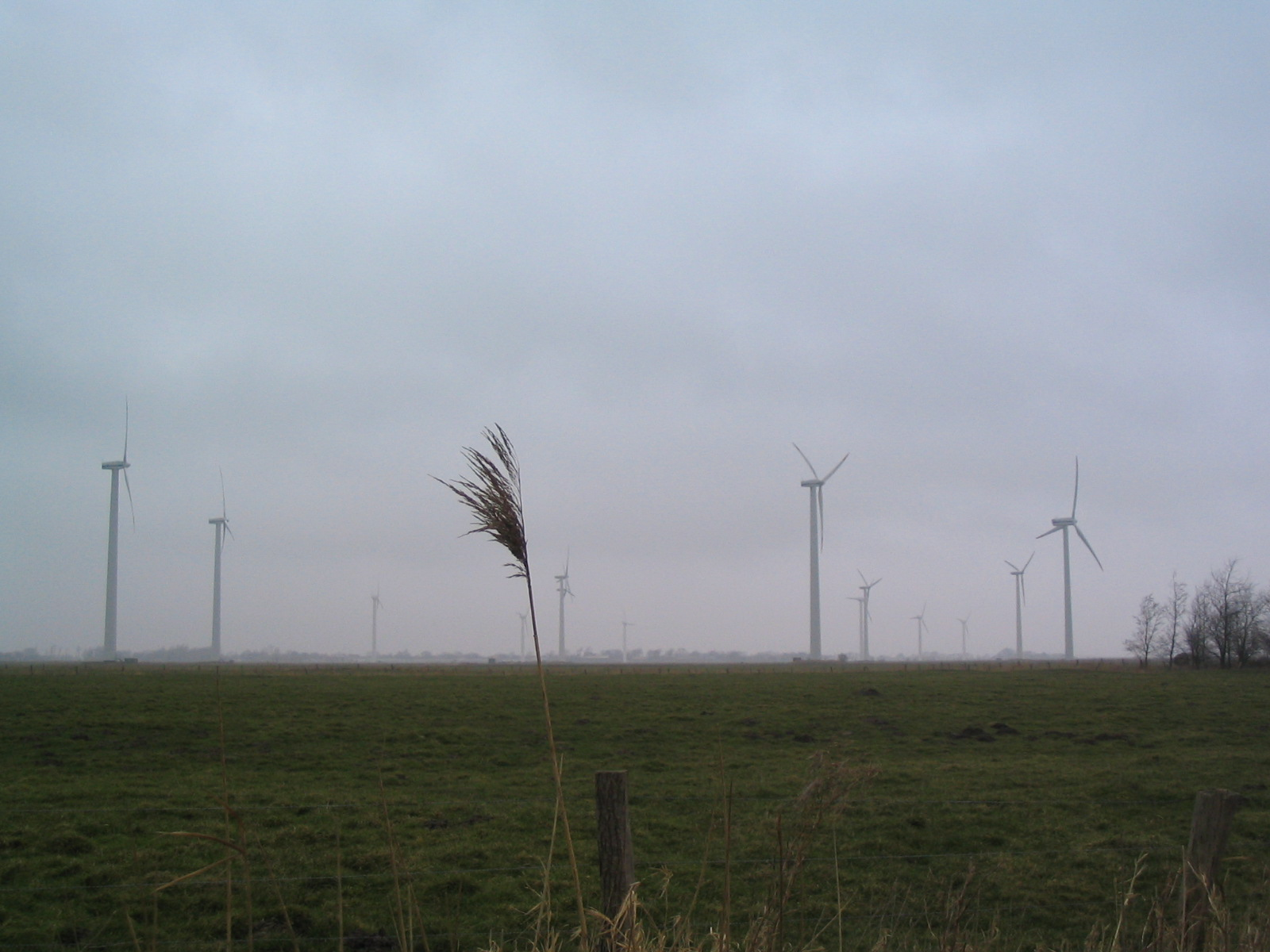 Wind turbines in the mist. Close to Wesselburen.